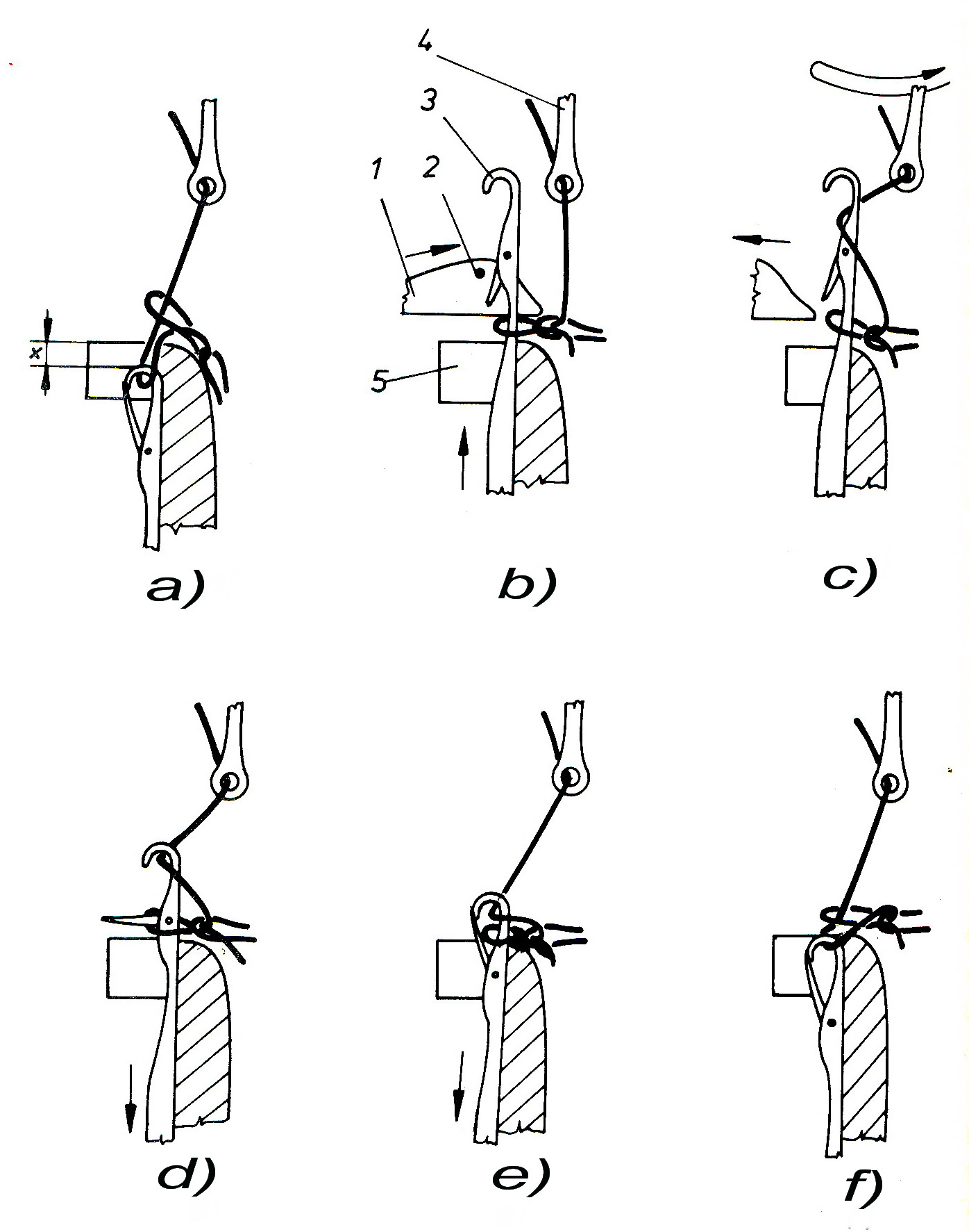 Loop formation on a single needle bar Raschel machine